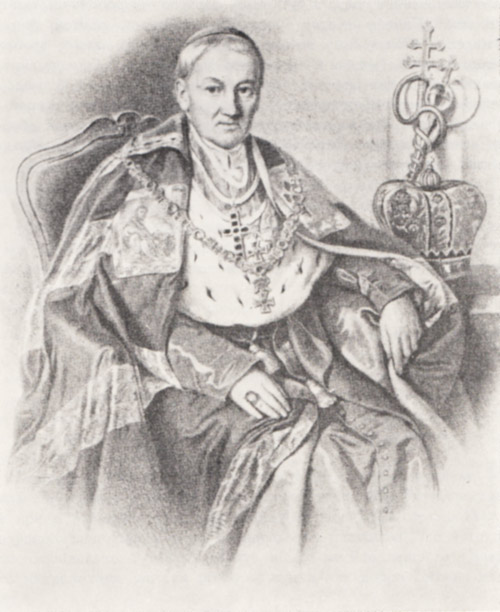 Mykhajlo Levitsky, Metropolitan of Lviv